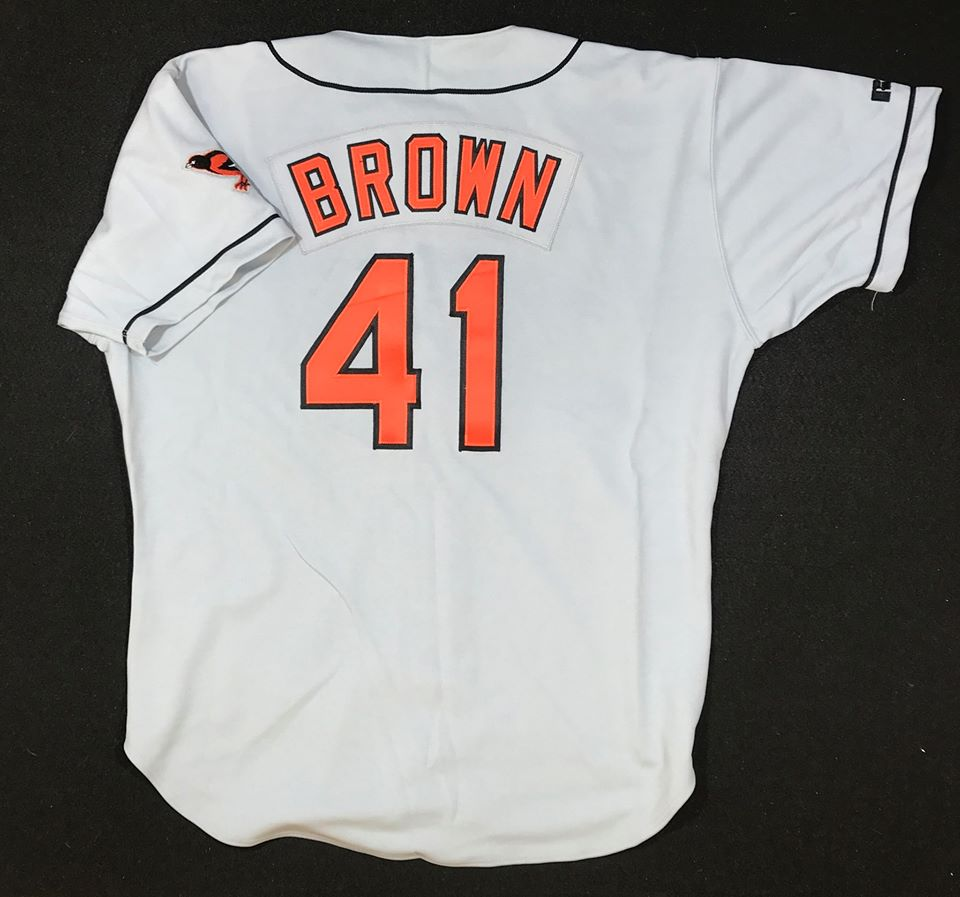 1995 Baltimore Orioles #41 Kevin Brown road jersey lettered and photographed by William F. Henderson who may be contacted through his website at thedream.shop